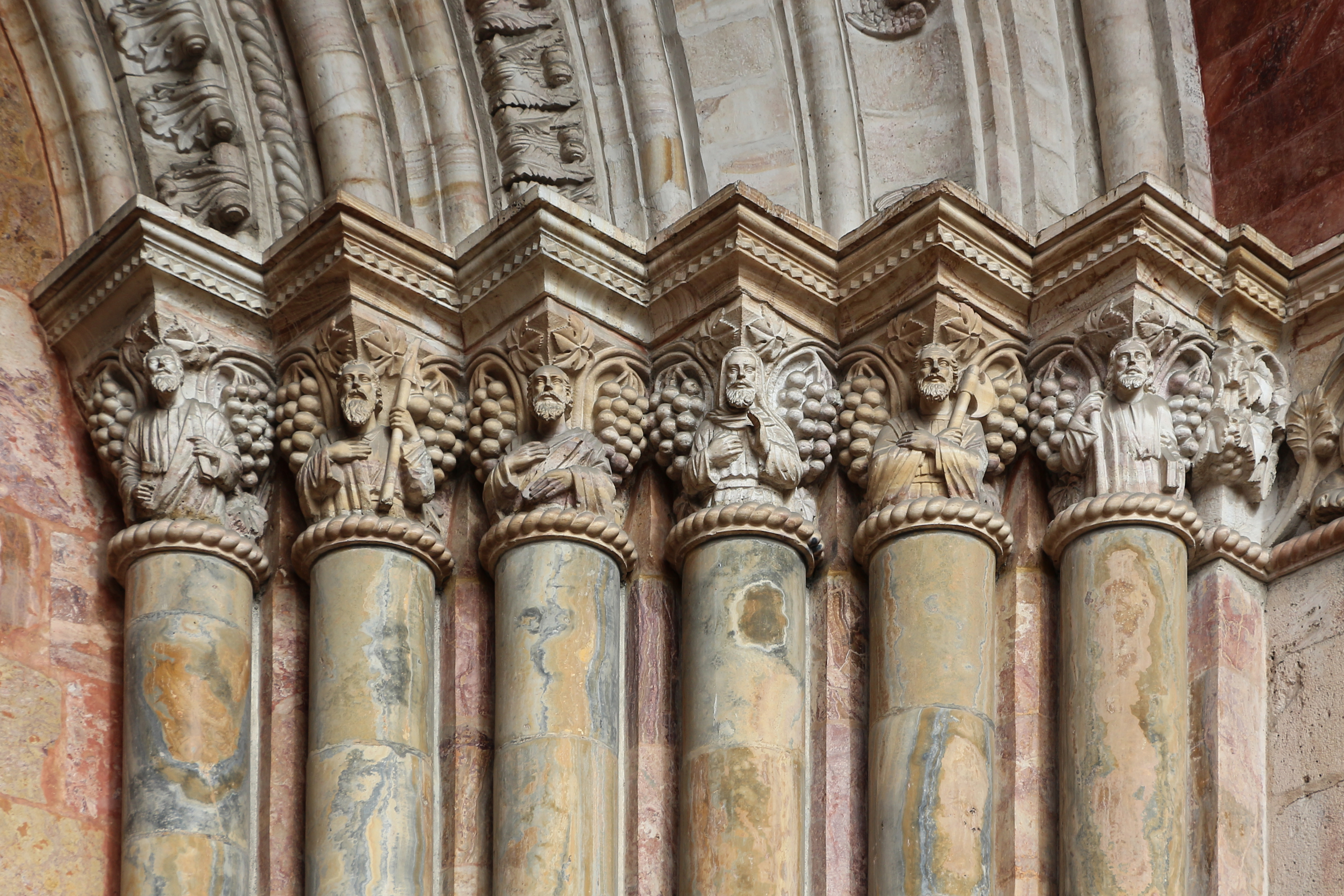 Sculptures at the Catedral de la Inmaculada Concepción, Cuenca, Ecuador